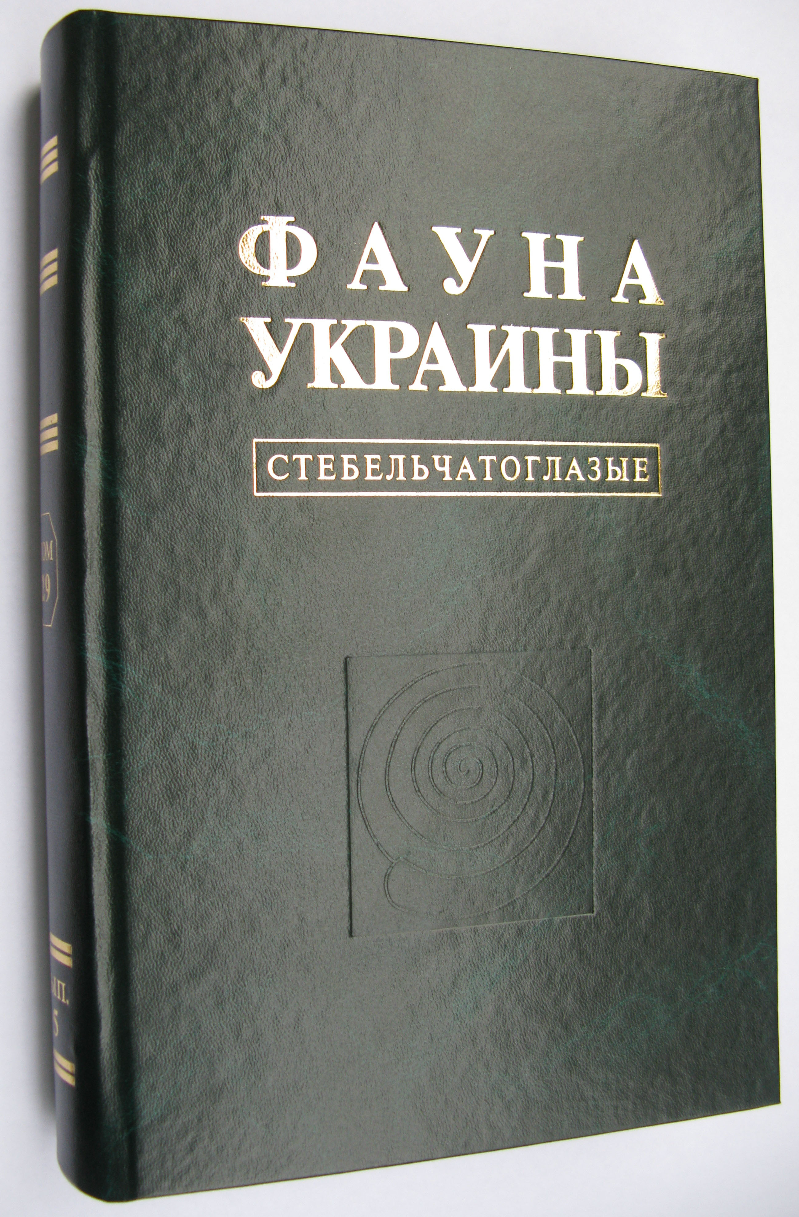 Book in "Fauna of Ukraine" series. Tome 29: Molluscs. Volume 5: Stylommatophorans. Balashov I. 2016.